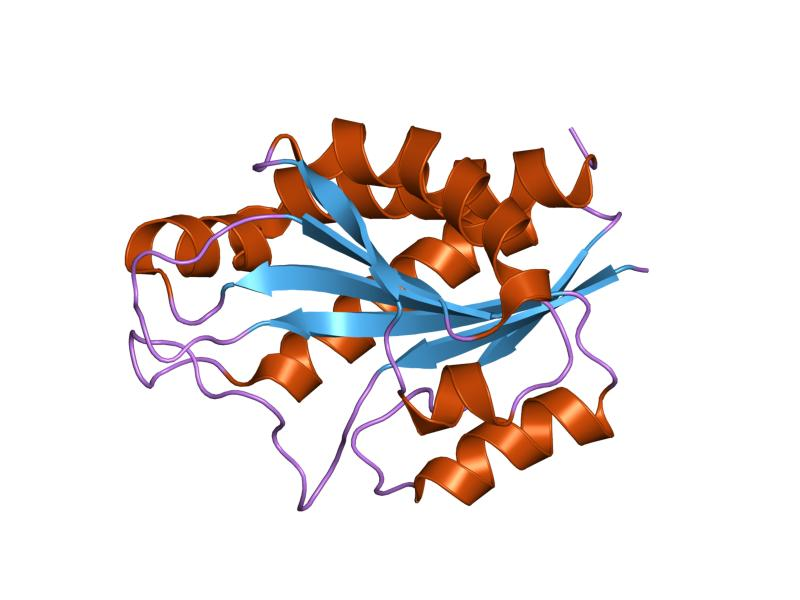 Cartoon representation of the molecular structure of protein registered with 1jwq code.